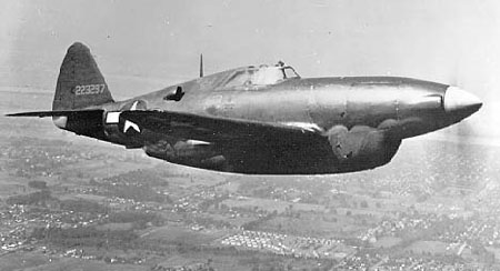 Republic XP-47H Thunderbolt variant with Chrysler XIV-2220-1 V16 engine